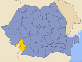 Location of Mehedinți County in Romania.